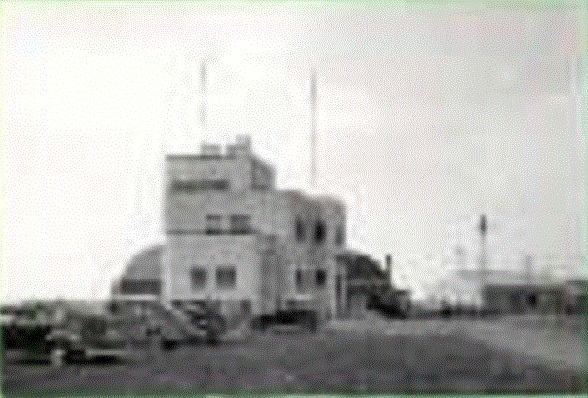 Title: Regina Airport Terminal Building Date: 1940 Retrieval Number: CORA-E-2.34 Extent: 1 B&W print mounted on album page; 7.5 cm x 5 cm Scope and Content Note: Regina airport terminal building Access Restrictions: None Photographer: William Andrew Cambridge Martin Parent fonds/collection: Martin Photo Album Other information Historical Note: The Regina Municipal Airport was officially opened on September 15, 1930 . In 1939 the Department of Transport built an administration building and control tower at the Regina Municipal Airport . The terminal buildings were constructed in an Art Deco style and are reported to have been designed by Storey and Van Egmond, although no architectural drawings exist that can confirm that claim.